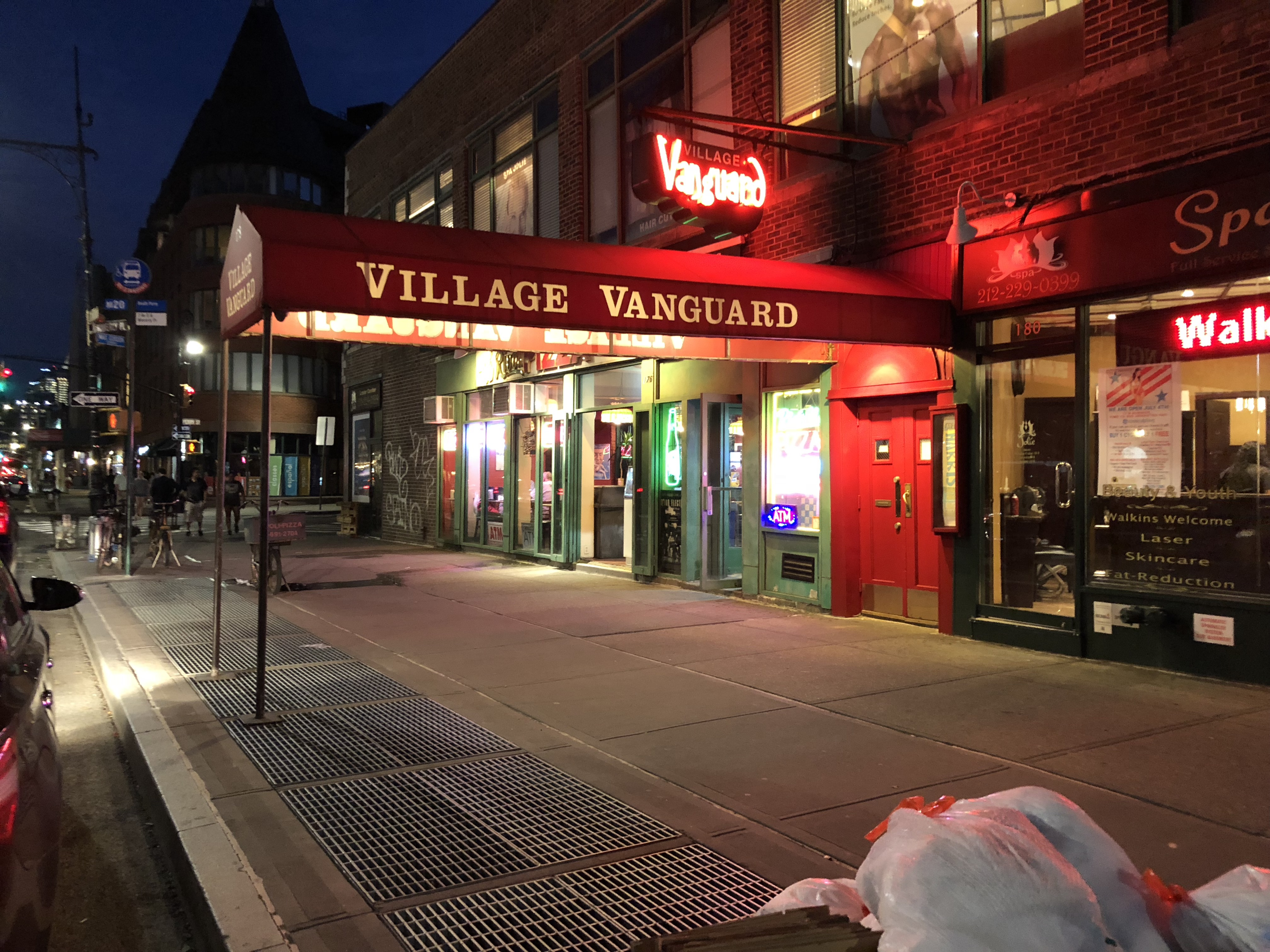 Village Vanguard, Summer 2018